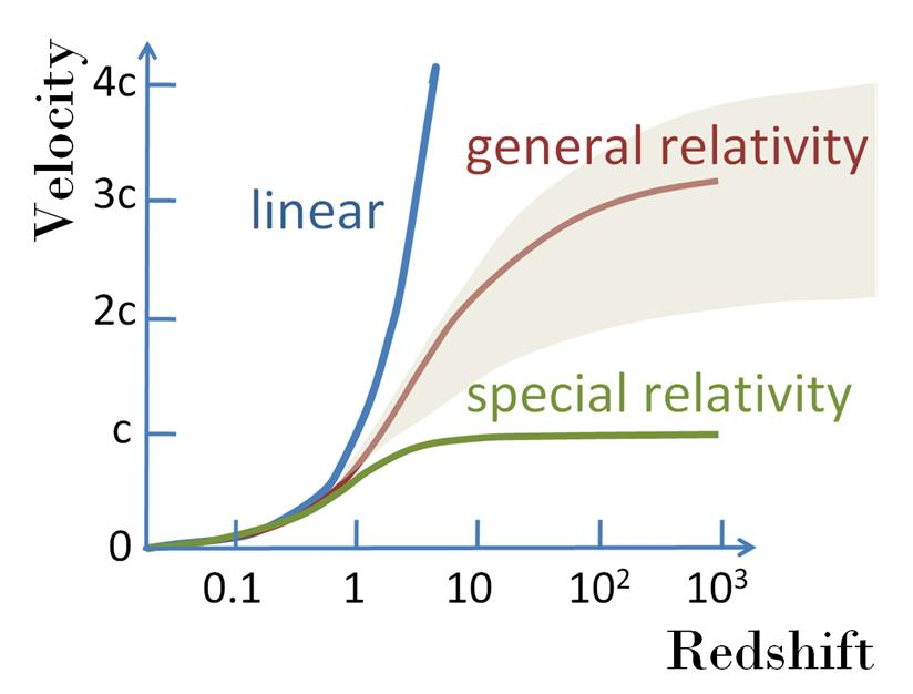 Possible velocity vs. redshift functions; patterned after Davis & Lineweaver